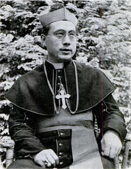 39 page of the 13 January 1947 issue of Life (magazine)